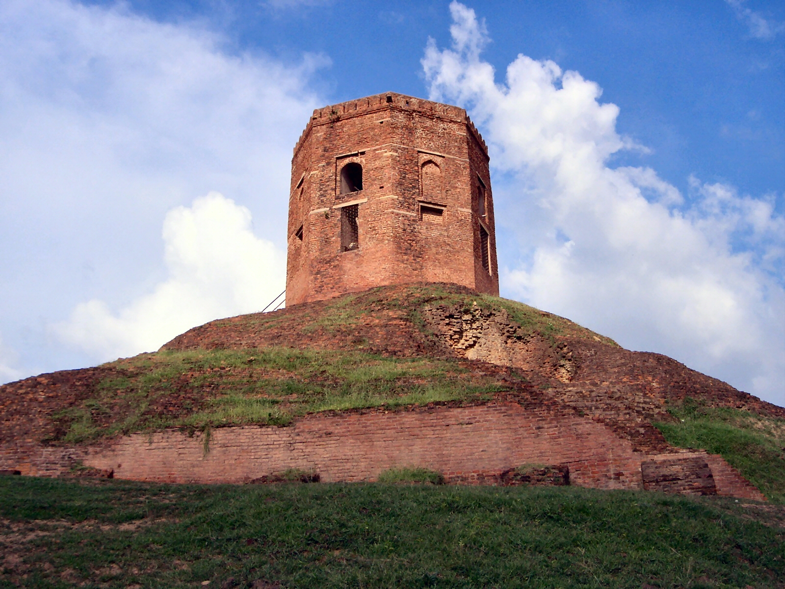 Chaukhandi Stupa on a hill, Sarnath.